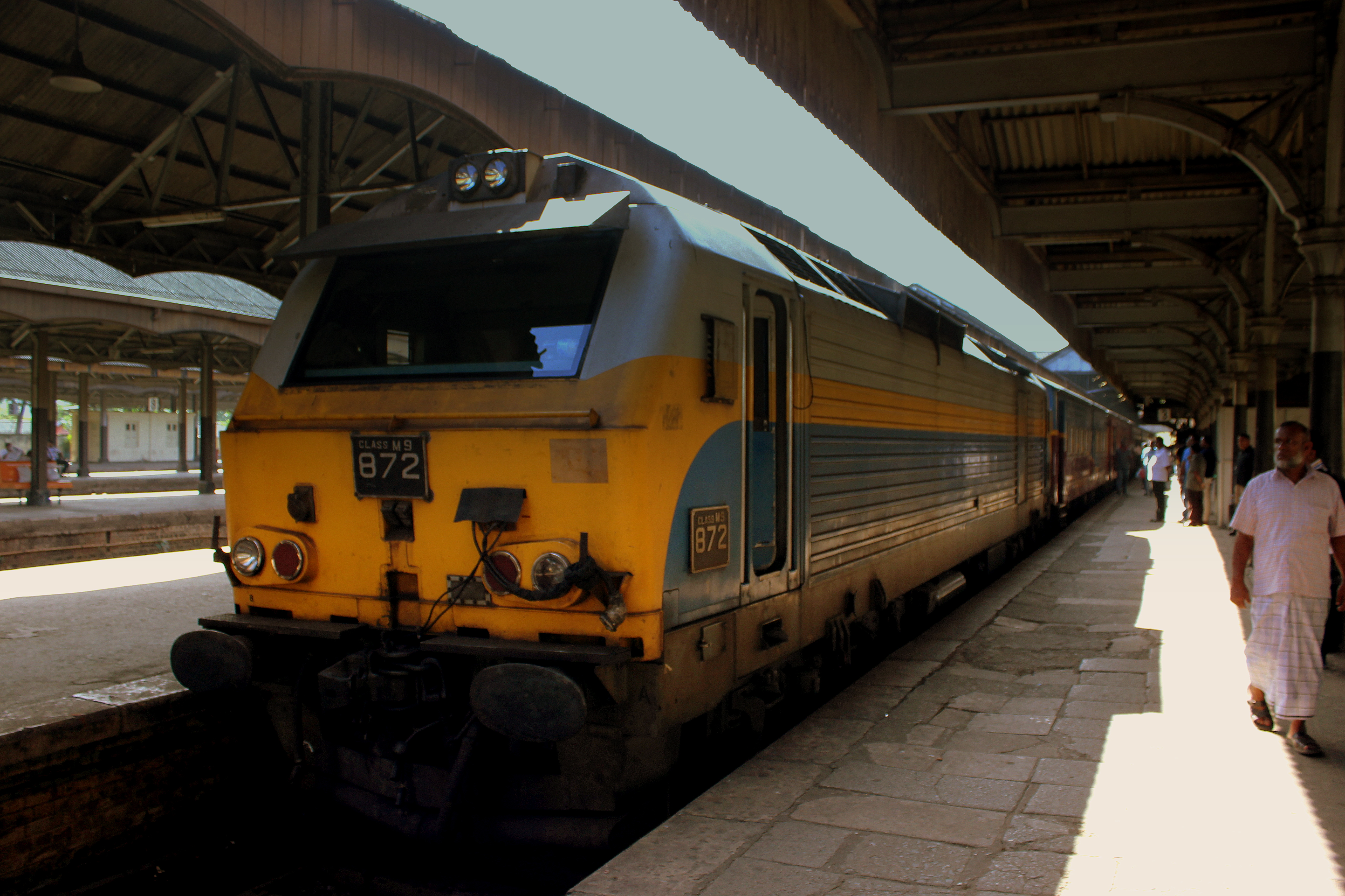 SRI LANKA RAILWAYS CLASS M9 LOCO HAULED TRAIN COLOMBO TO KANDY SRI LANKA JAN 2013